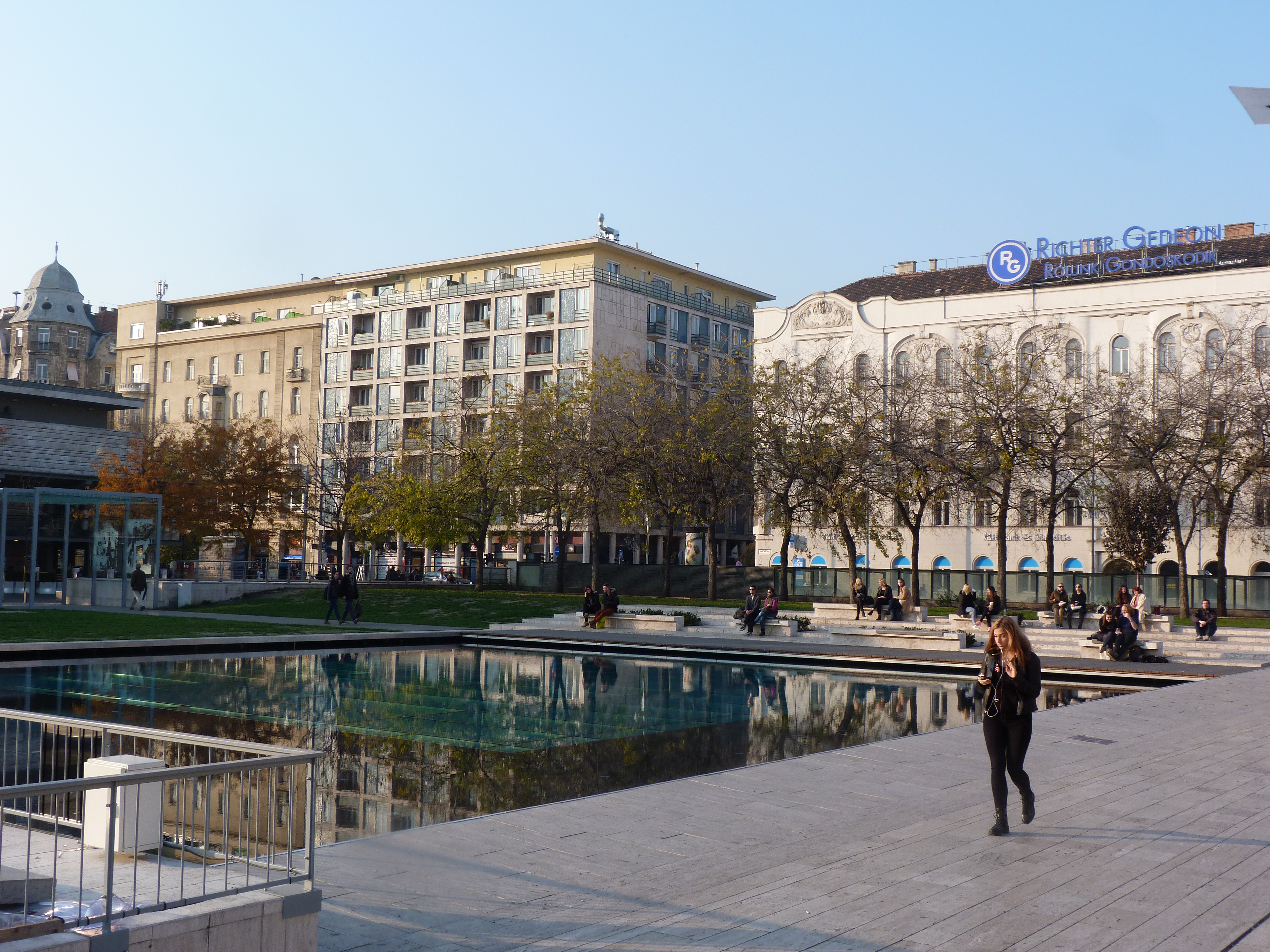 Live on the 6th of November, 2015. Akvárium, Budapest.